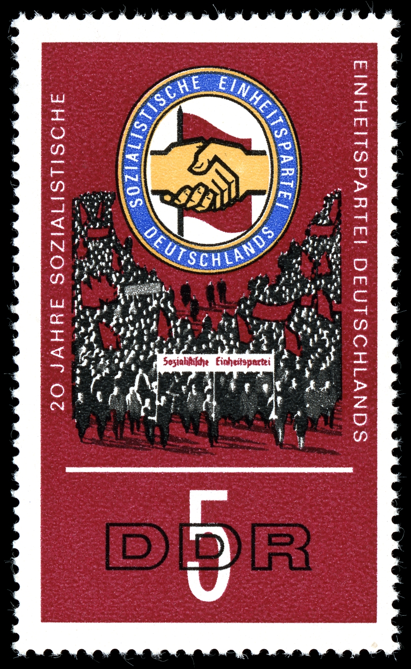 Ausgabepreis: Pfennig First Day of Issue / Erstausgabetag: Auflage: Entwurf: Druckverfahren: Michel-Katalog-Nr: Ländercode-MiNr: Licensing This file is most likely NOT in the public domain. It has been marked for review, and will be deleted in due course if the review does not find it to be in the public domain.This file was previously considered to be in the public domain as a German stamp; it is possible that it is in the public domain for other reasons, in which case a new rationale will be applied as part of the review process. See below for the previous rationale. Previous public domain rationale, no longer applicable This stamp is in the public domain in Germany because it was released by the postal administration of the German Democratic Republic or the Soviet occupation zone (Deutschen Post der DDR) whose legal successor is the Federal Republic of Germany. Thus it is an official work according to German copyright law (§ 5 Abs. 1 UrhG).